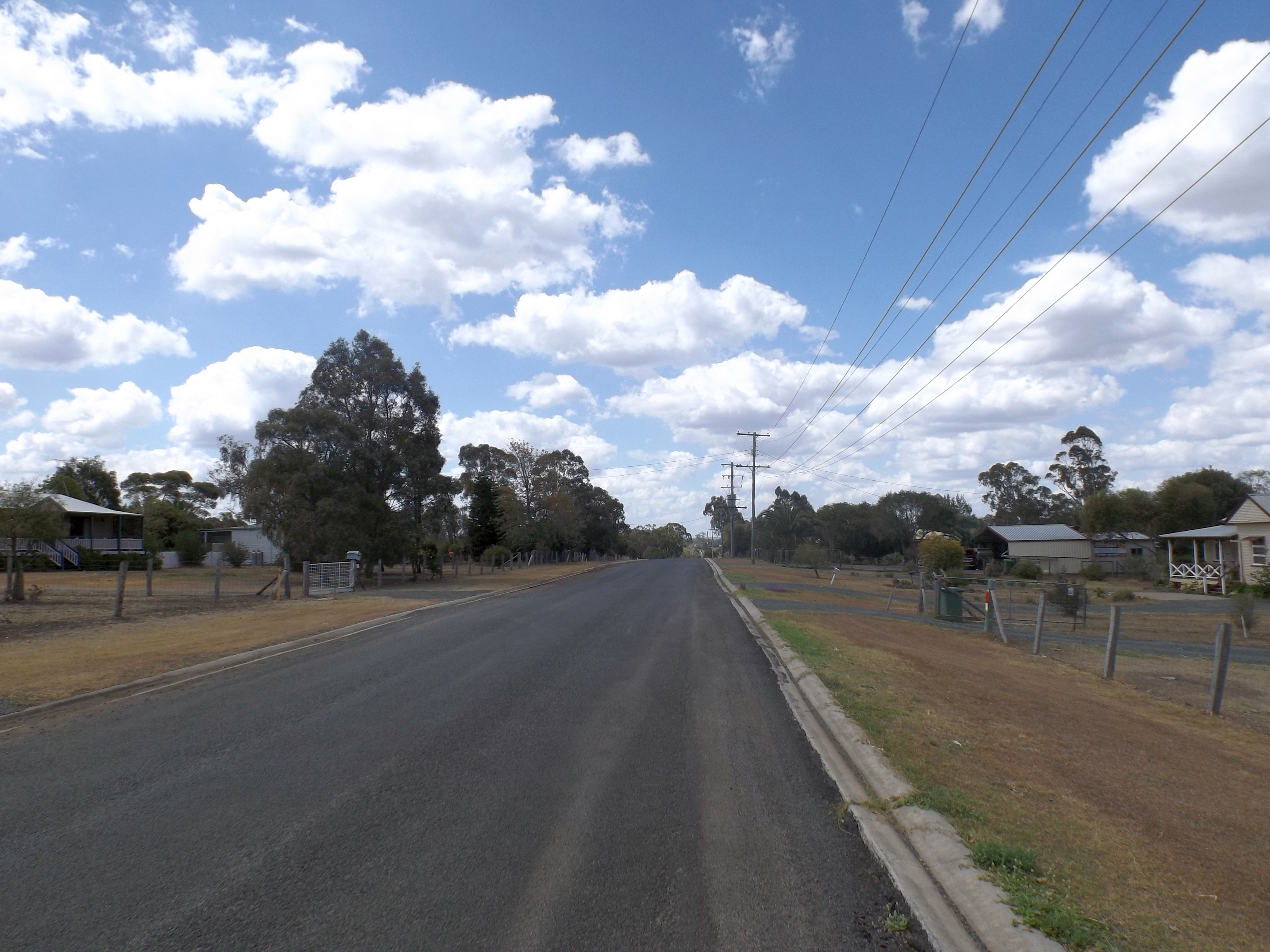 Photo of Clifford Street in Meringandan West, Queensland, Australia.